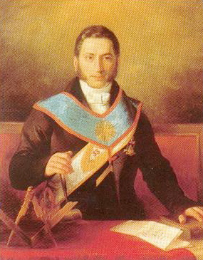 Pierre Theodore Verhaegen